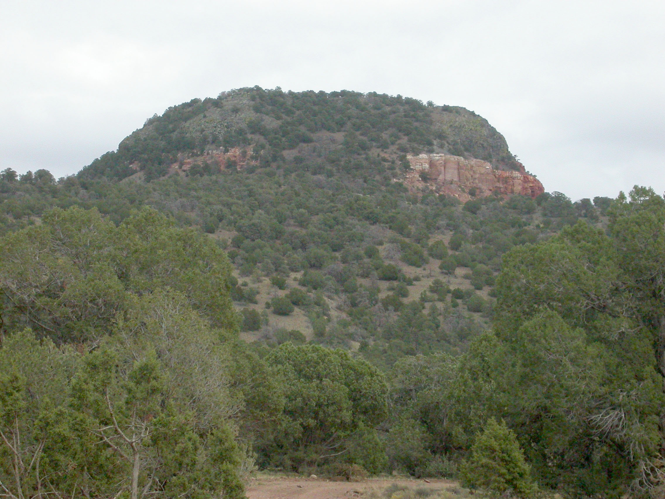 West face of Red Butte, Arizona. The trail to the top follows this face.